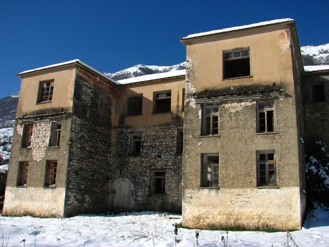 The facade of an Ottoman seraglio of Pogoniani (until 1928 Vostina)